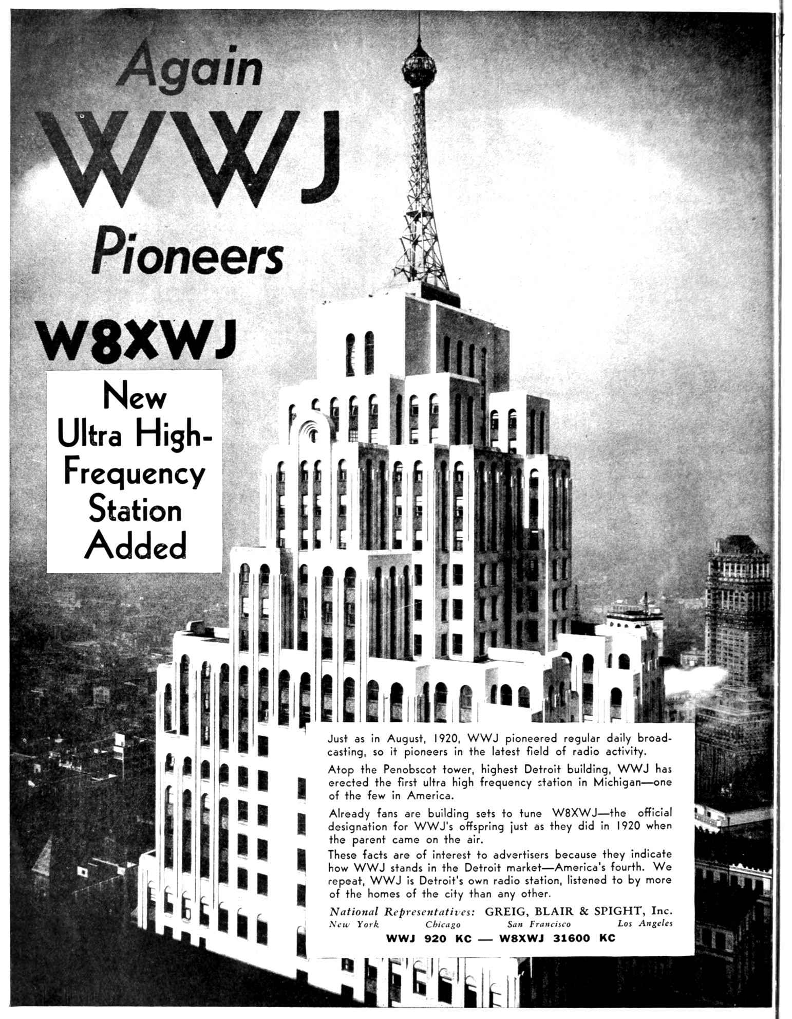 In 1936 the Detroit News newspaper launched W8XWJ, an experimental "ultra-high short-wave" (also known as an "Apex") radio station. The transmitting antenna was located atop the Penobscot Building in Detroit, Michigan.